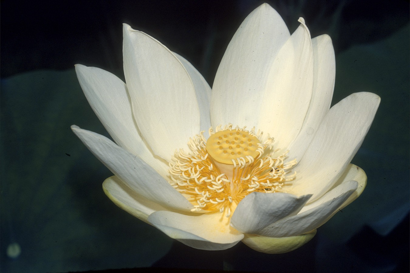 Lotus flower